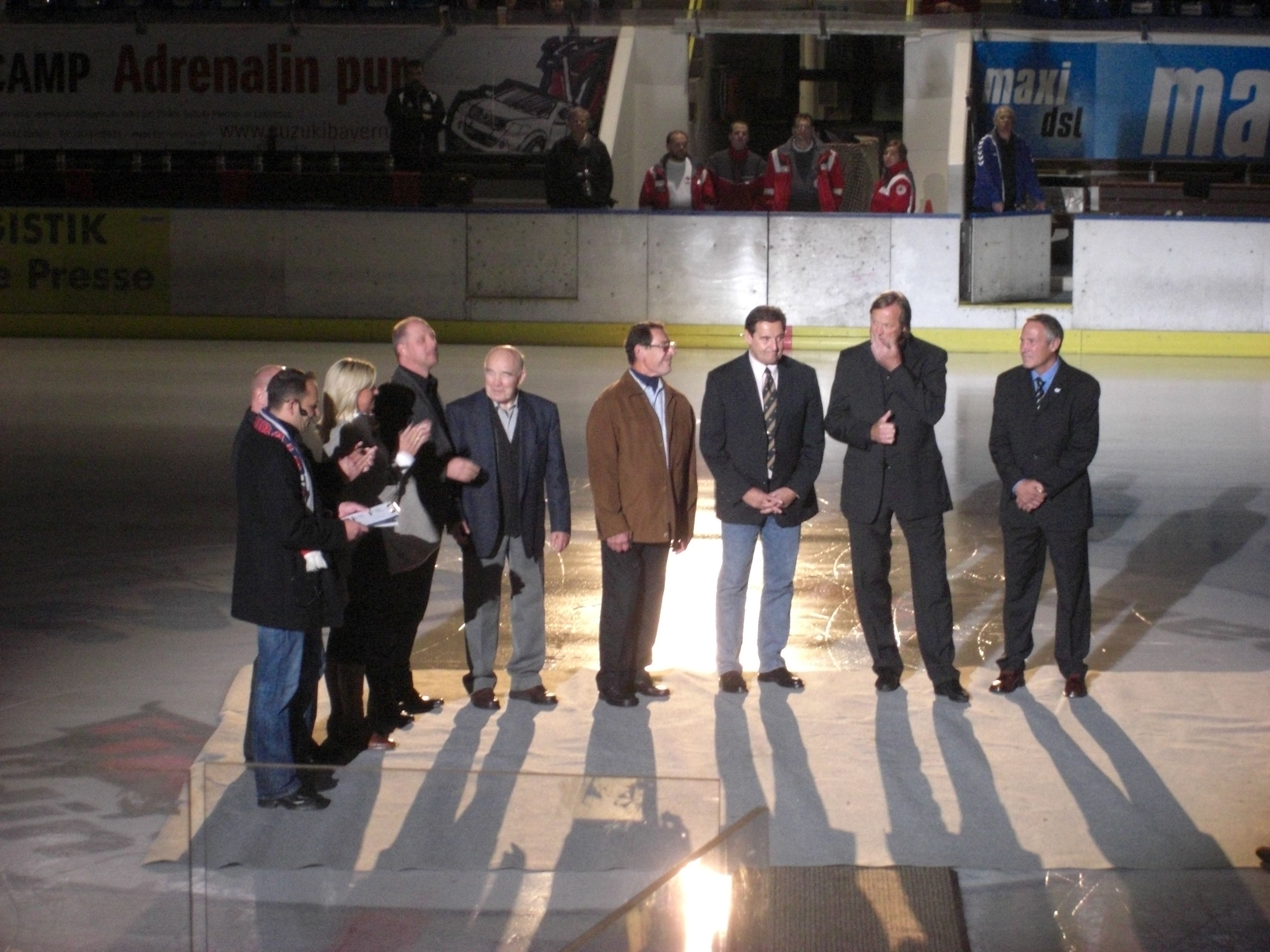 Honour of the most valuable players of the ice hockey club EV Landshut at the beginning of the 2010-11 season against Kaufbeuren. From right to left: Alois Schloder, Erich Kühnhackl, Klaus Auhuber, Sepp Schramm and Jaro Truntschka.